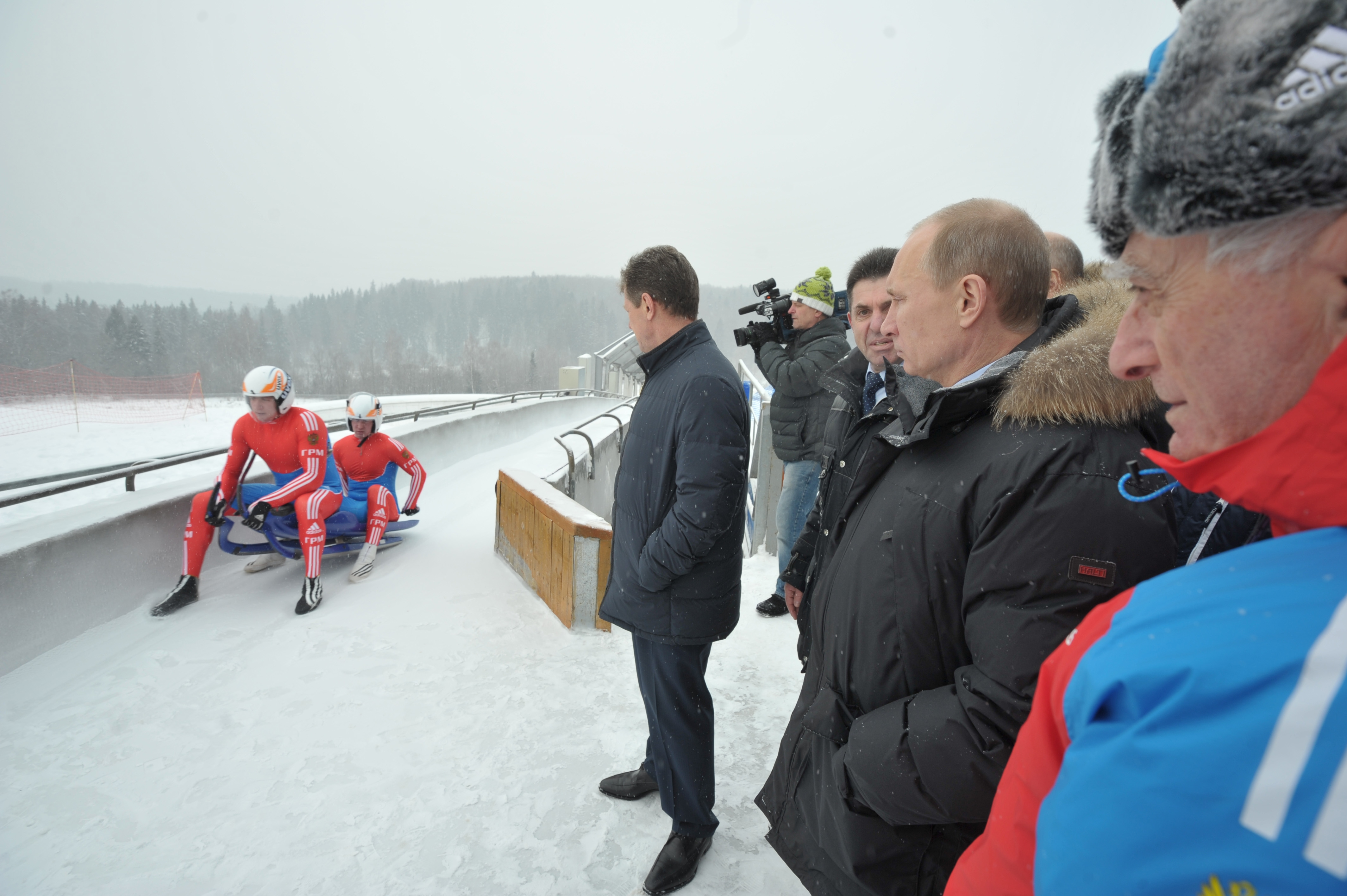 Russian Prime Minister Vladimir Putin visits the bobsleigh, luge and skeleton complex in Paramonovo in the Moscow Region